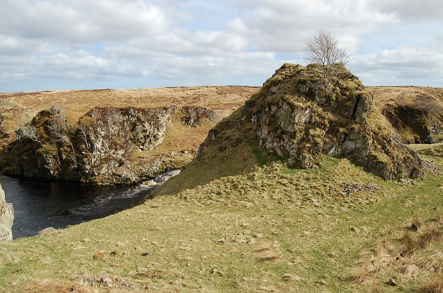 Dirlot Castle Next to nothing now remains of the castle. The small keep stood on top of this rock spike with a curtain wall and perhaps two smaller towers on the low ground below the spike. Never much of a defensive position it served more as a frontier post on the edge of the Keiss, Sinclair and Gunn clan lands.